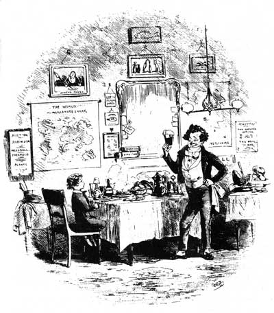 Original illustration from the novel David Copperfield.